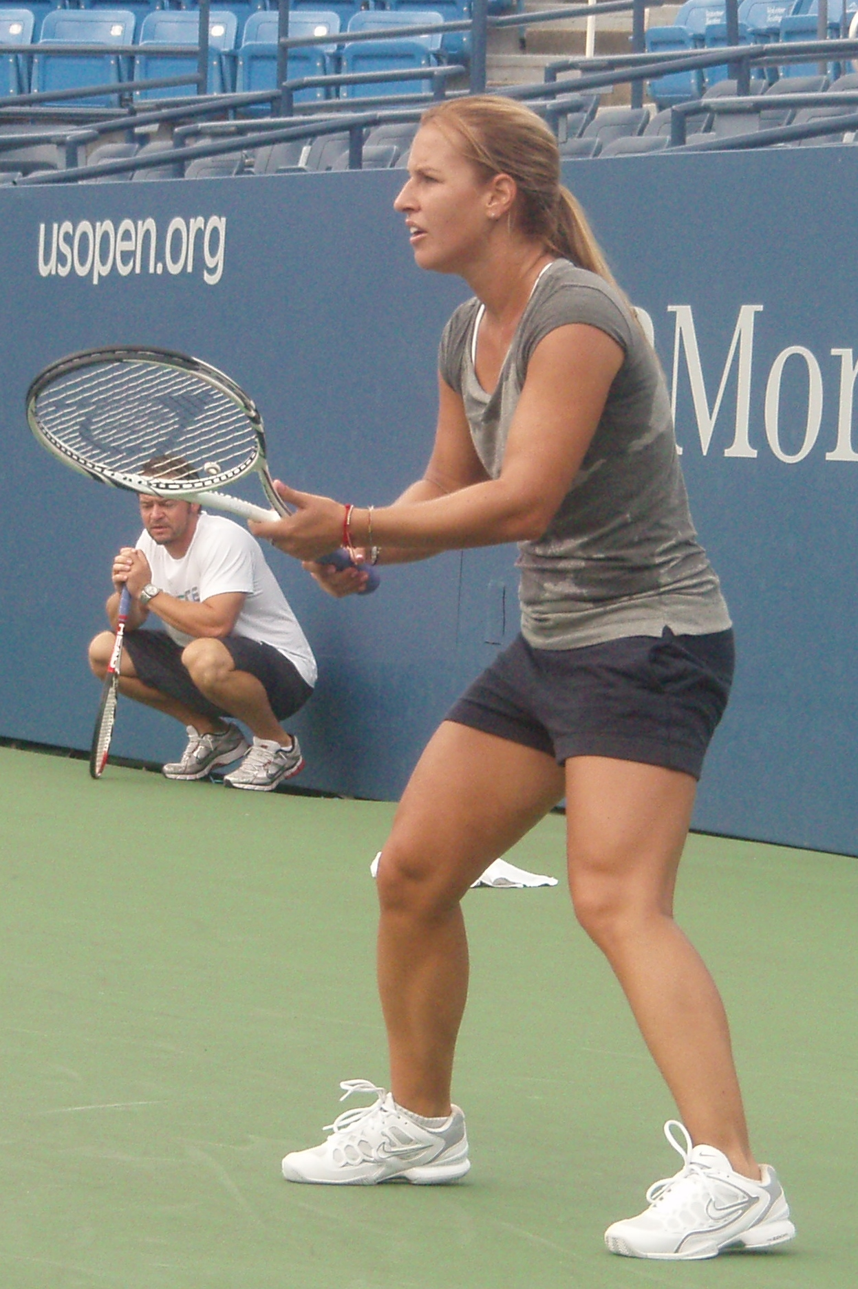 Cibulkova at US Open 2011